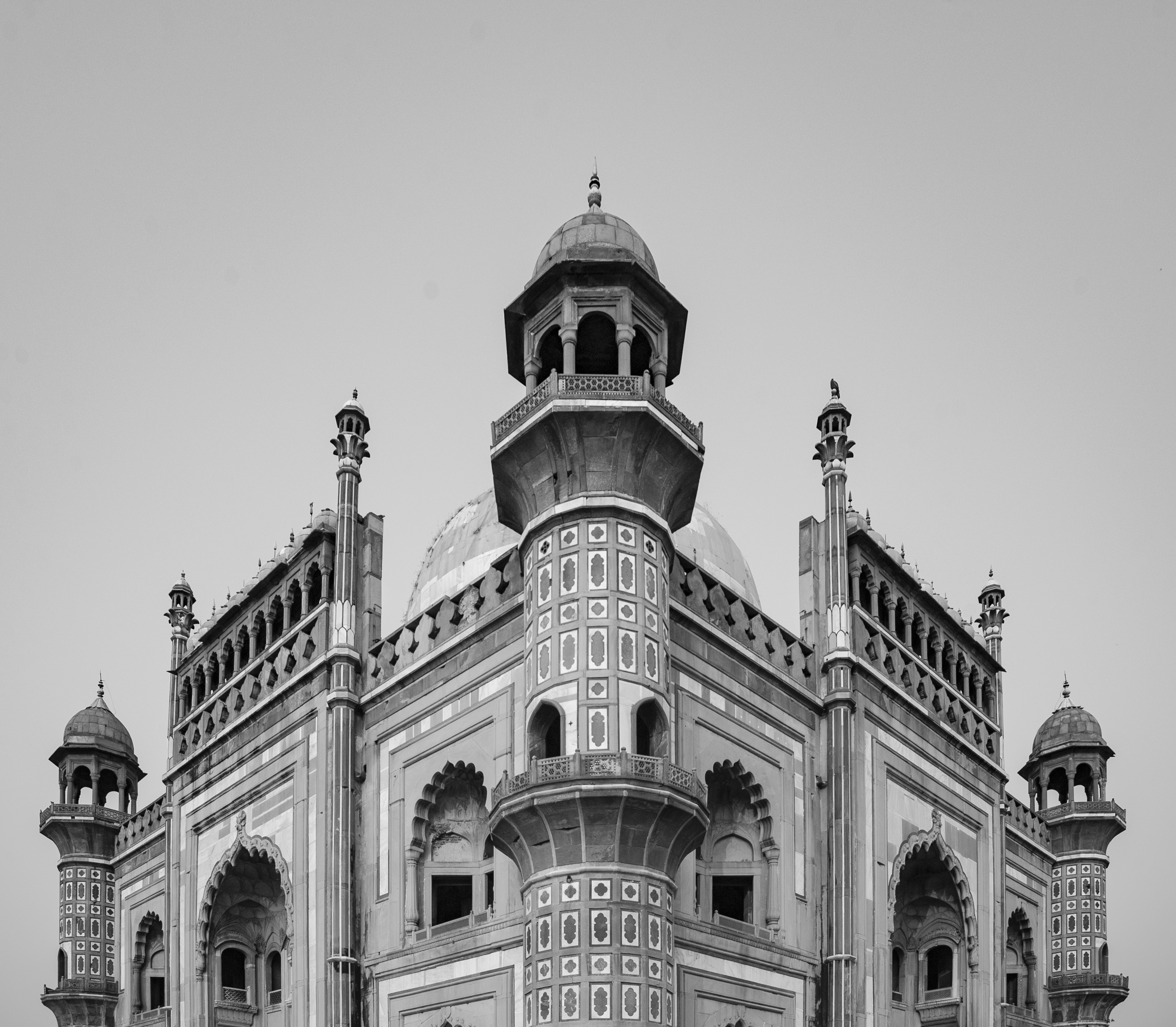 Isometric view of Safdarjung Tomb